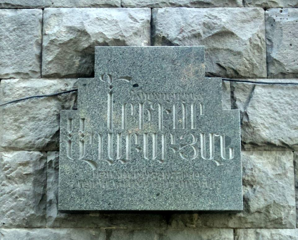 Grigor Aghababyan's Plaque